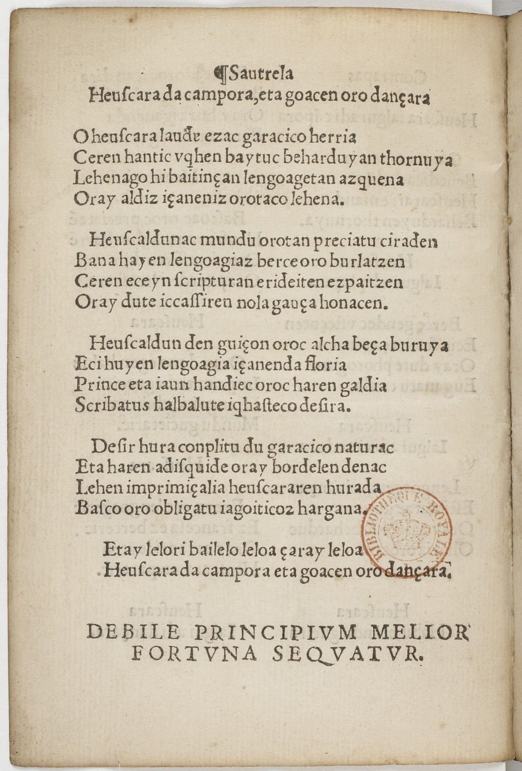 Sautrela poema, Bernart Etxeparerena, Linguae Vasconum Primitiaeko azken olerkia